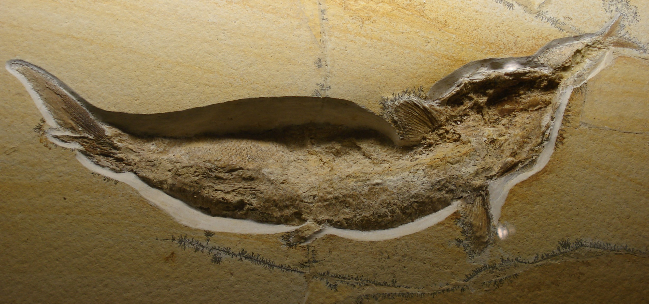 fossil of Caturus e Tharsis